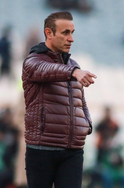 Yahya Golmohammadi